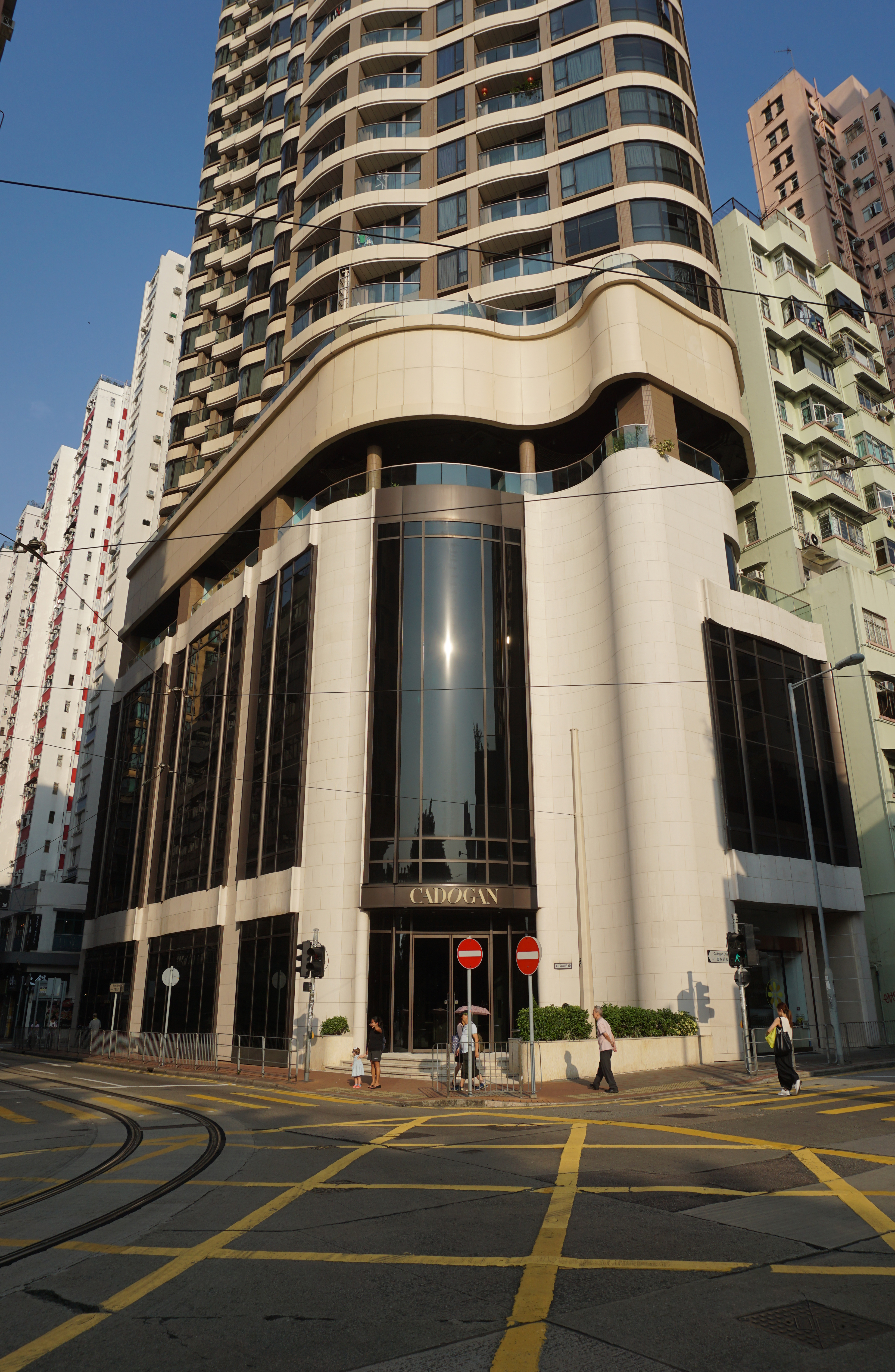 Cadogan in Kennedy Town, Hong Kong.